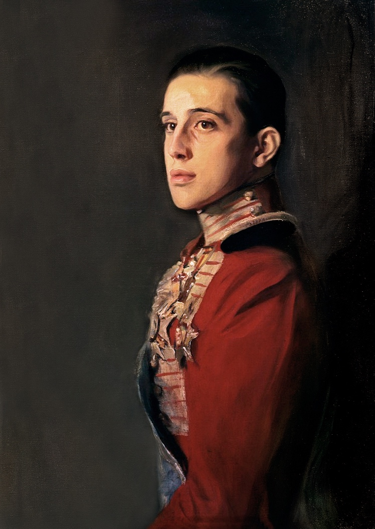 Portrait painting of Infante Jaime, Duke of Segovia, by Philip Laszlo. He is wearing the uniform of the noble order "Real Maestranza de Caballería de Sevilla" (Royal Cavalry Armoury of Seville).